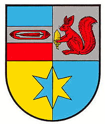 Coat of arms of Gonbach